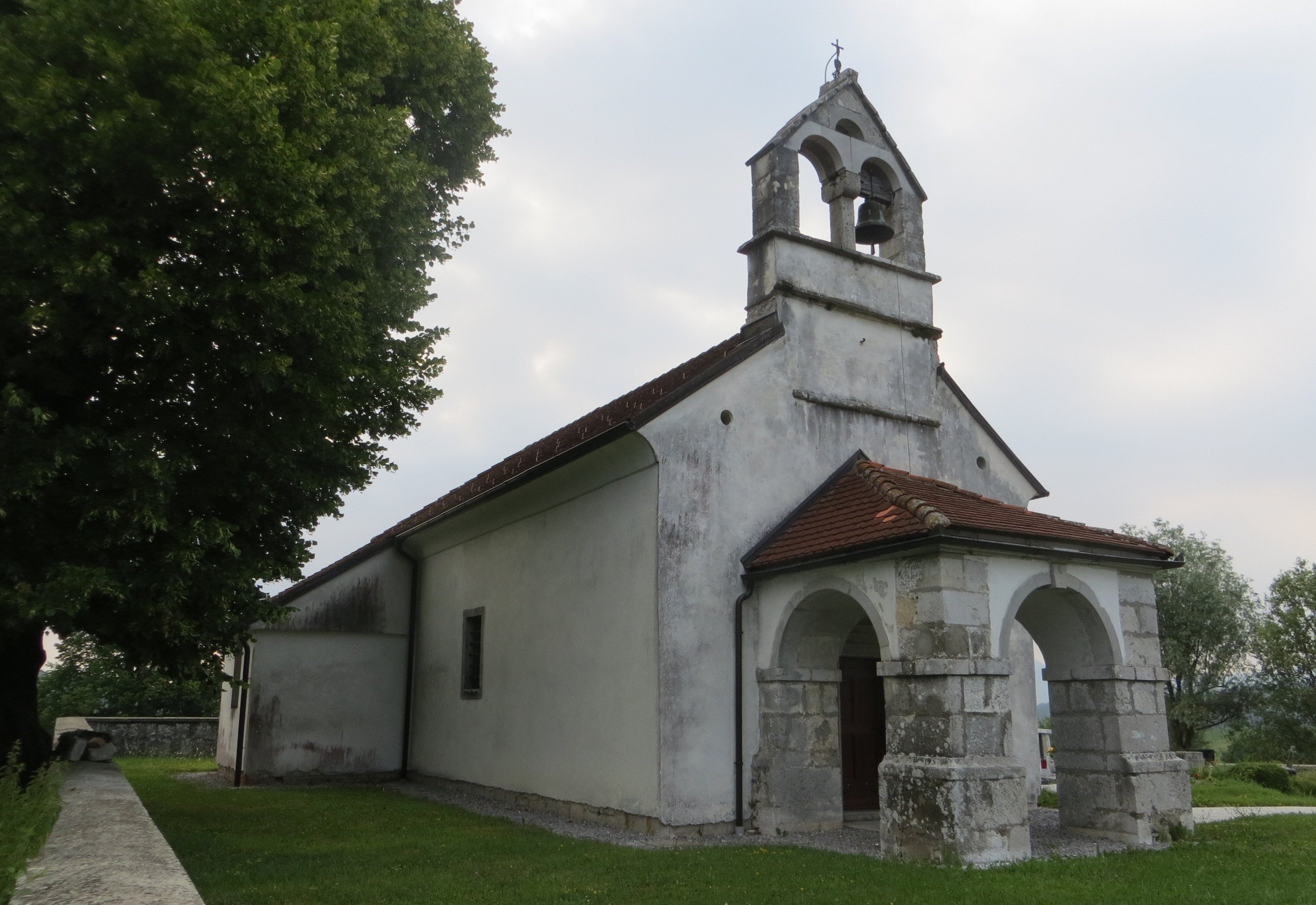 Saint Nicholas's Church in Landol, Municipality of Postojna, Slovenia